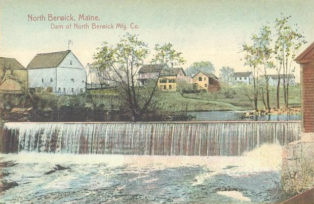 Dam of the North Berwick Company, North Berwick, Maine. This shows Doughty Falls on the Great Works River.